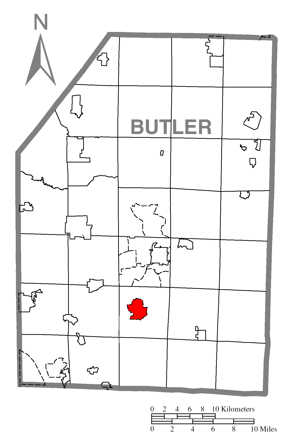 A map of Butler County showing Nixon, Pennsylvania (alternate) highlighted on the map.